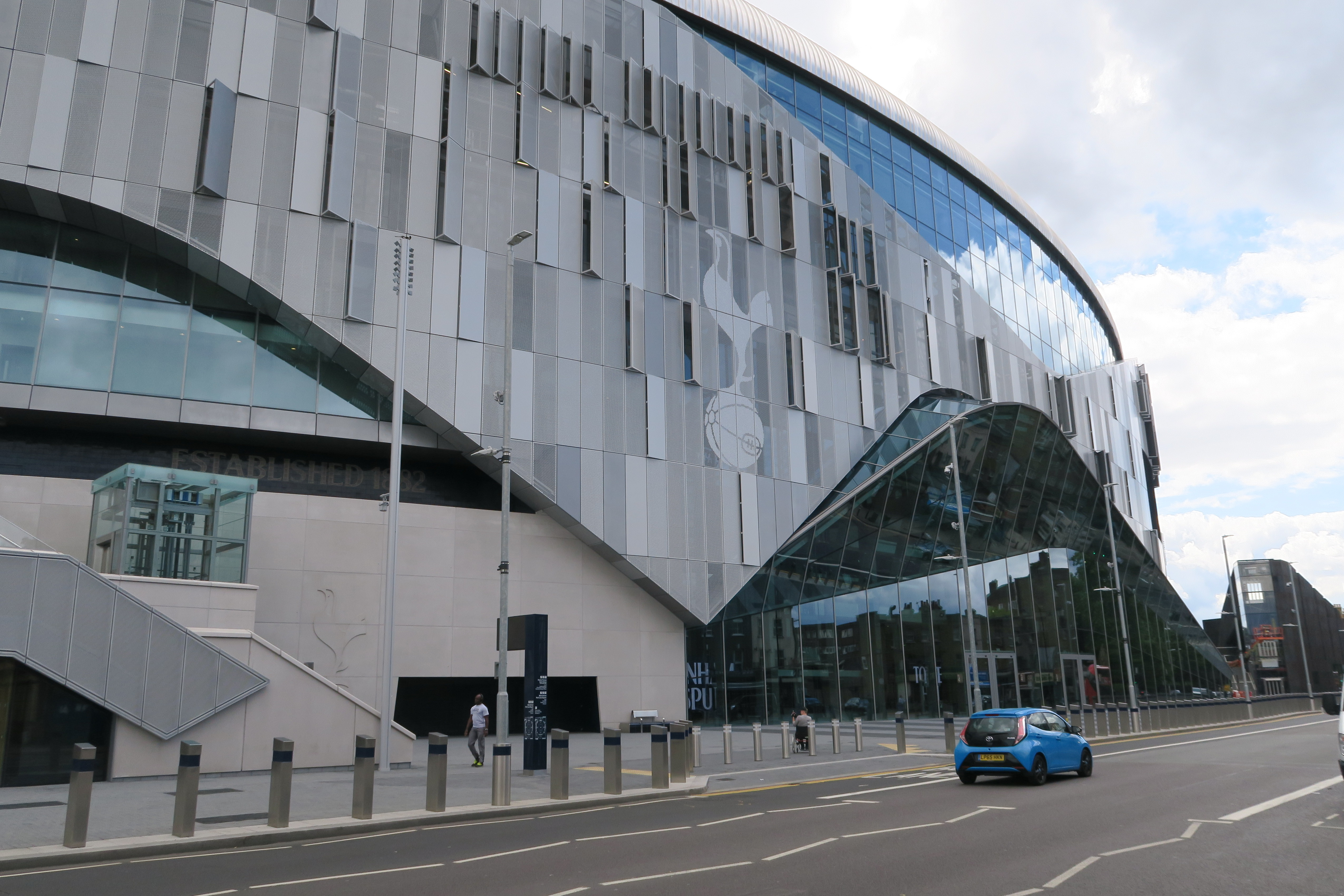 West entrance of Tottenham Hotspur Stadium, view from High Road in June 2019